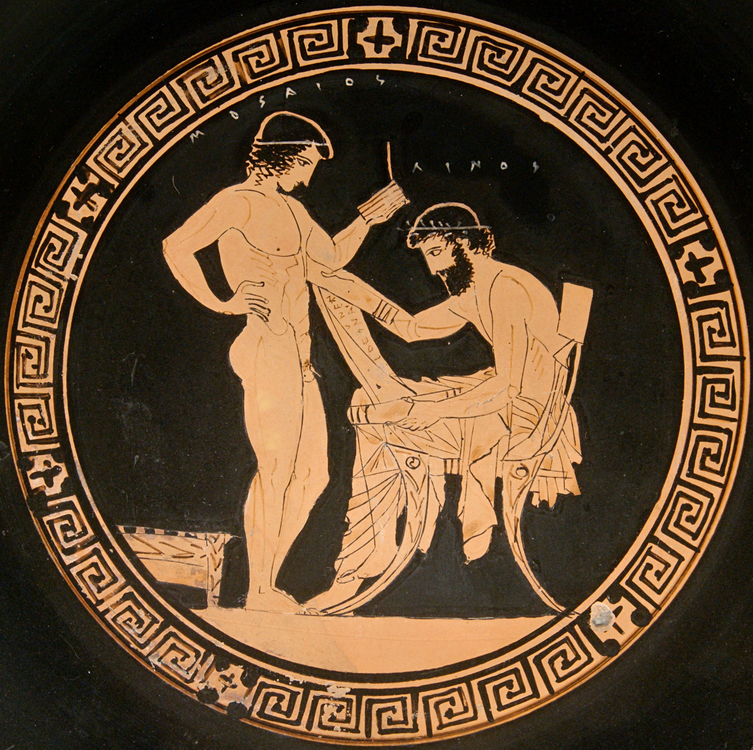 Linos (named, on the right) holds a papyrus roll while his pupil, Mousaios (named, on the left), holds writing tablets. Tondo from an Attic red figure cup.